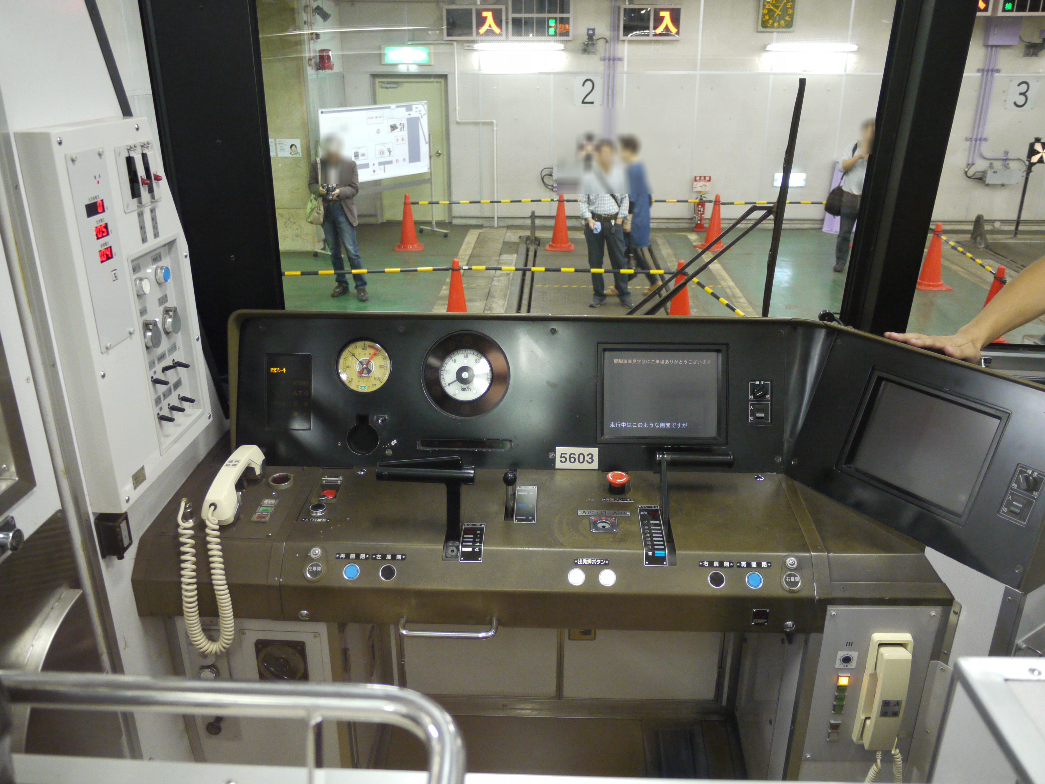 Kyoto subway 50 series cabin